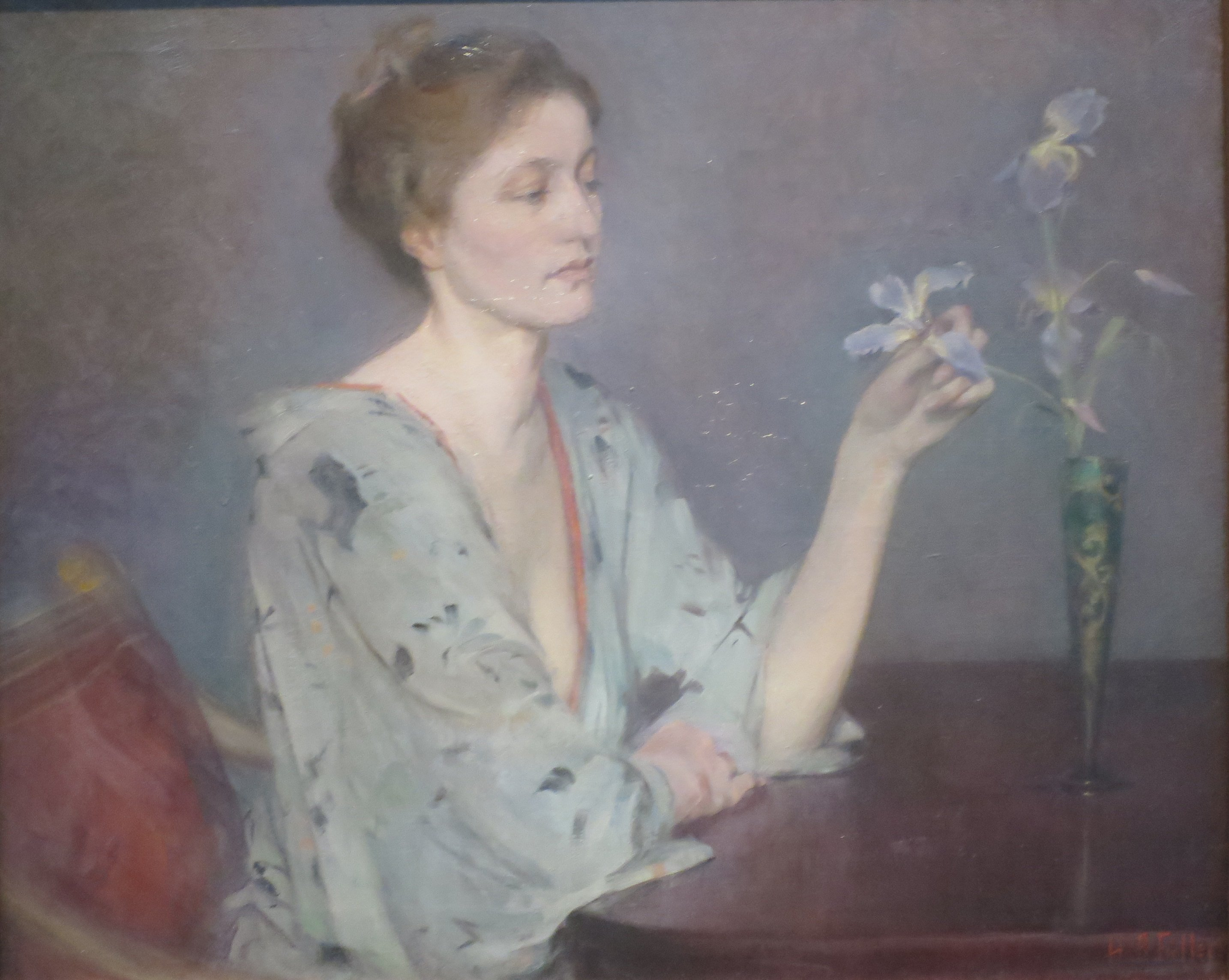 Ebba Bohm by Henry Brown Fuller, c. 1905, oil on canvas, De Young Museum